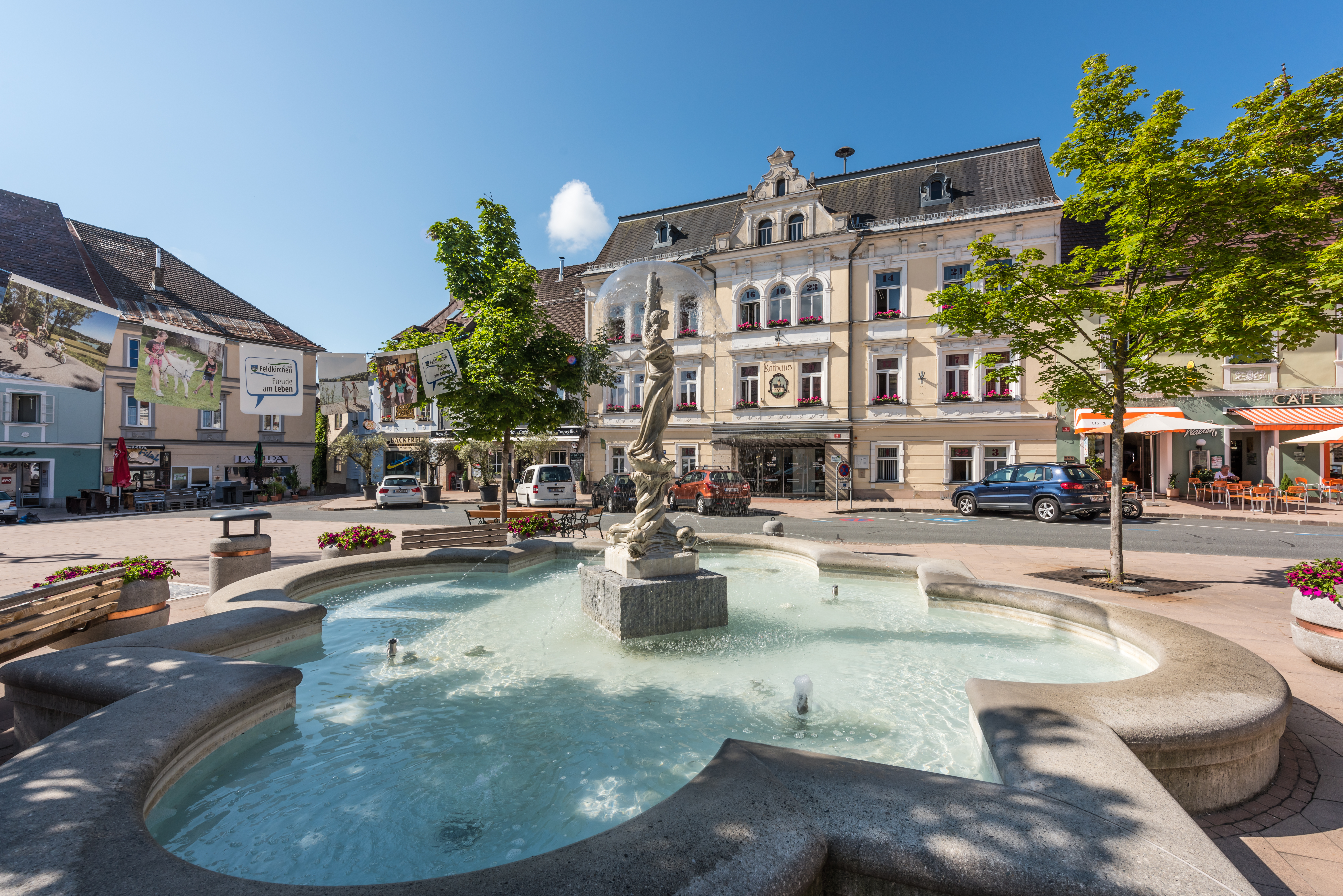 Nymph fountain and town hall on Hauptplatz, city Feldkirchen, district Feldkirchen, Carinthia, Austria, EU